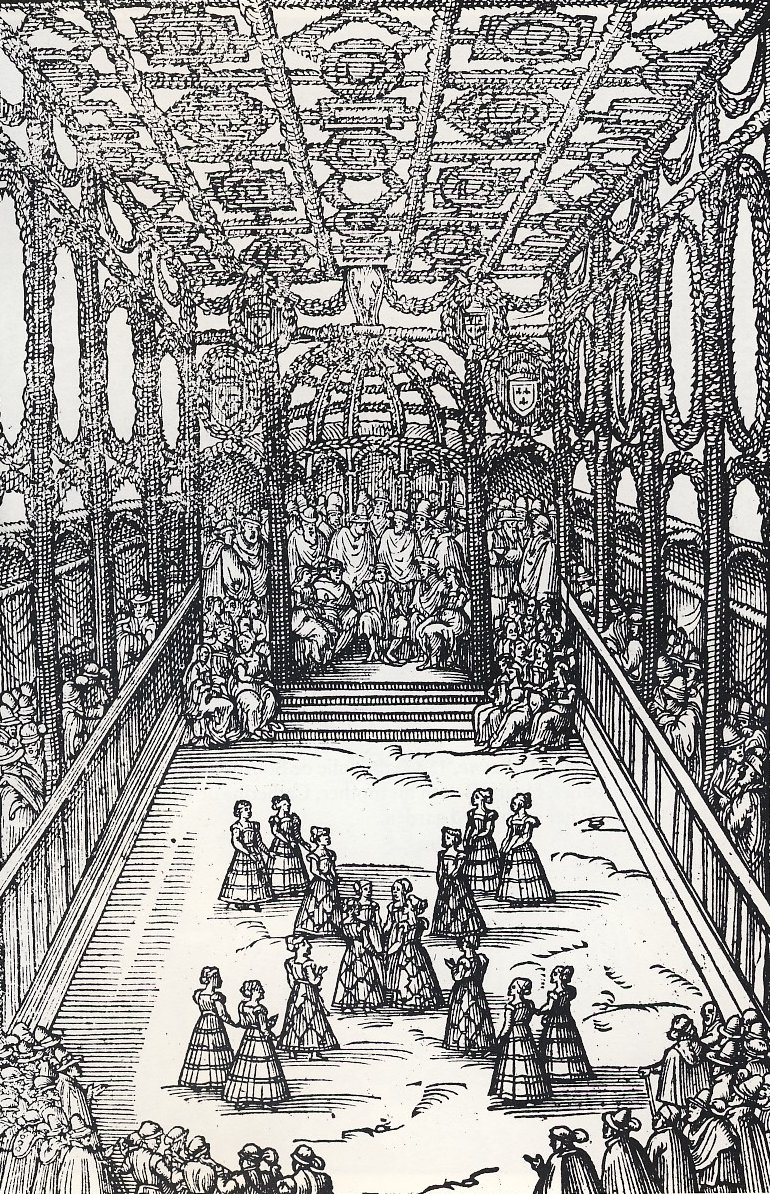 Woodcut of a court ballet performed at the Tuileries Palace, Paris, in 1573 in honour of Polish envoys visiting to present the throne of Poland to Catherine de' Medici's son Henry, Duke of Anjou, the future Henry III of France. Sixteen court ladies, each representing a province of France, are here arranged in a figure. Among the dancers was Marguerite de Valois, Catherine's daughter.